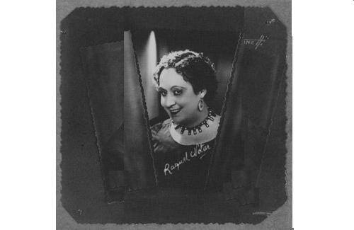 Raquel Notar- actress and singer